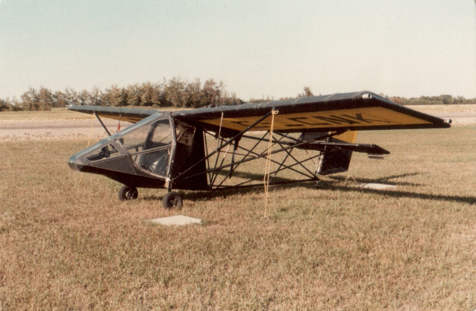 Teratorn Tierra II belonging to Free Spirit Ultralights, at St Albert Air Park, Alberta, Canada